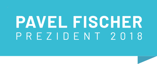 Campaign logo of Pavel Fischer for the Czech presidential election, 2018